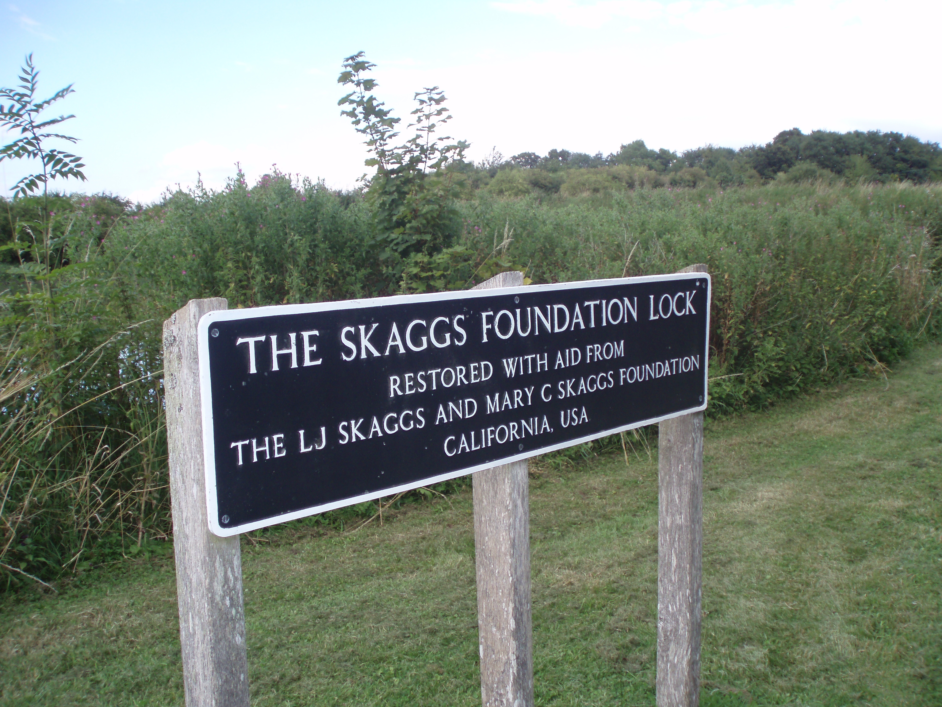 Photo taken, 7th August 2007